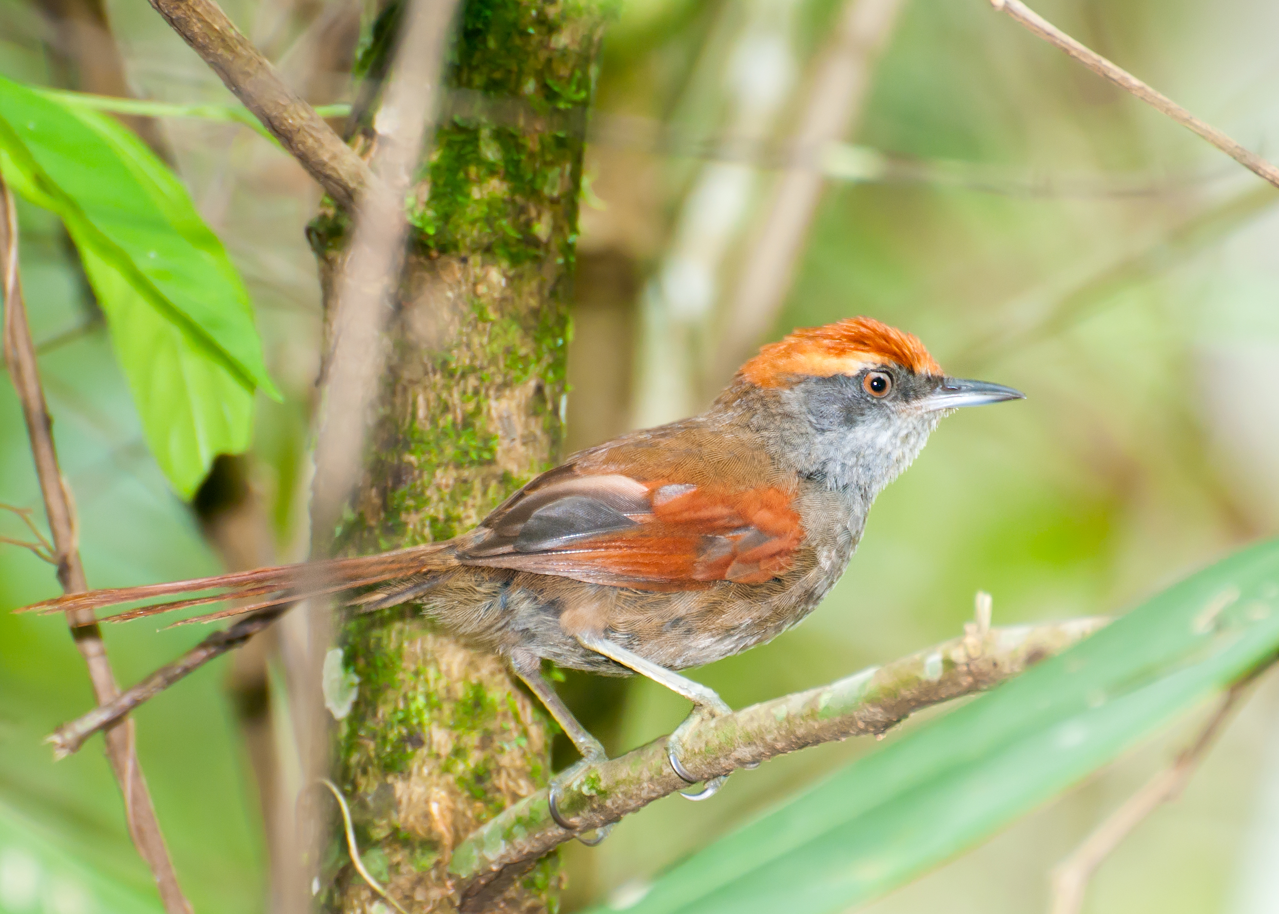 A Rufous-capped Spinetail in Sitio Arapongal, Registro, São Paulo, Brazil.